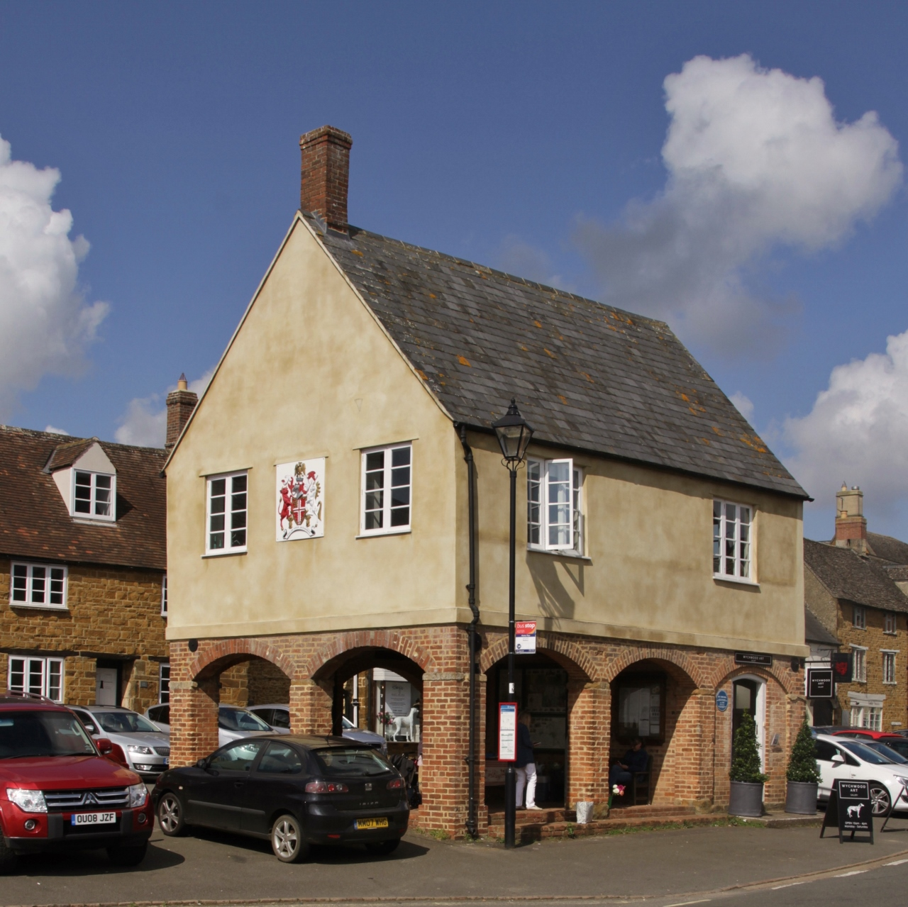 Town Hall, Market Place, Deddington, Oxfordshire, seen from the southeast